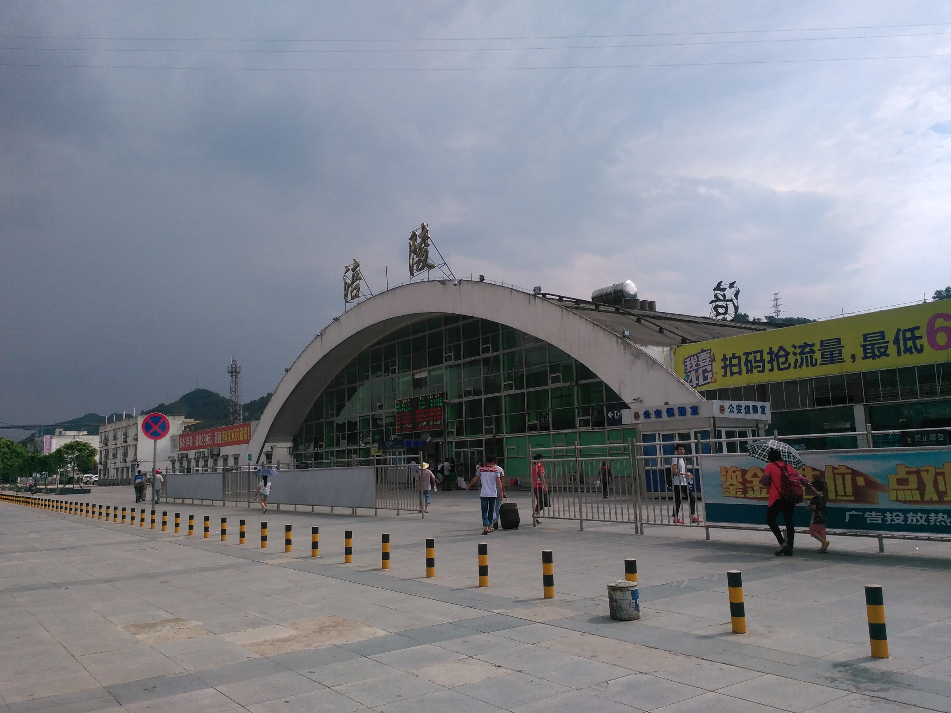 Fuling Station